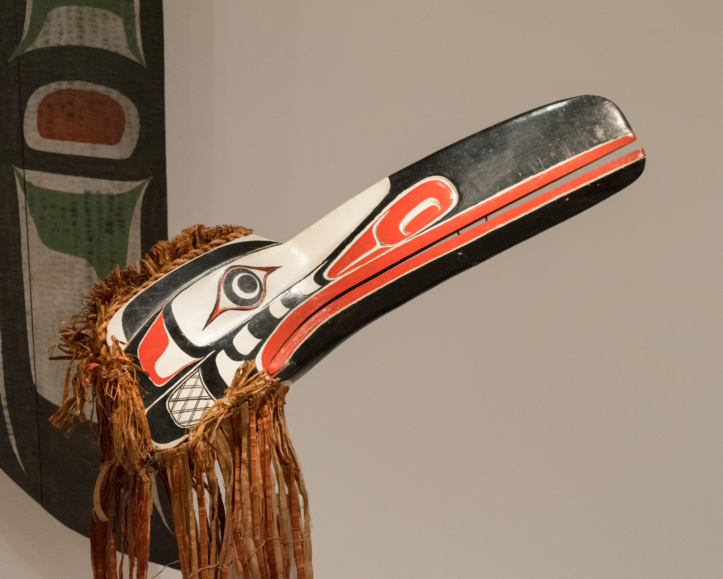 Gwaxwiwe' hamsiwe' (mask of the raven man-eater). Mungo Martin (Nakapankam), Kwakwaka'wakw, ca. 1940. Red cedar, red cedar bark, paint. John H. Hauberg, 91.1.13.